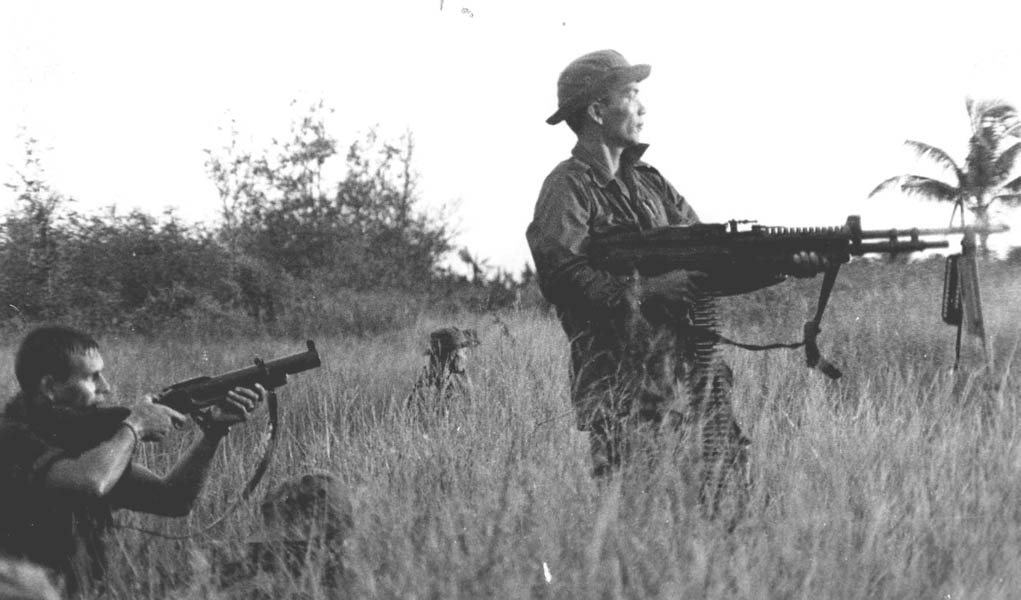 A Vietnamese "Tiger Scout" (as Kit Carson Scouts were called in 9th Division) during the Vietnam War. Firing an M60 machine-gun while an American behind him fires an M79 grenade launcher. From an online version of: SHARPENING THE COMBAT EDGE: THE USE OF ANALYSIS TO REINFORCE MILITARY JUDGMENT by Lieutenant General Julian J. Ewell and Major General Ira A. Hunt, Jr. DEPARTMENT OF THE ARMY, WASHINGTON, D.C., 1995